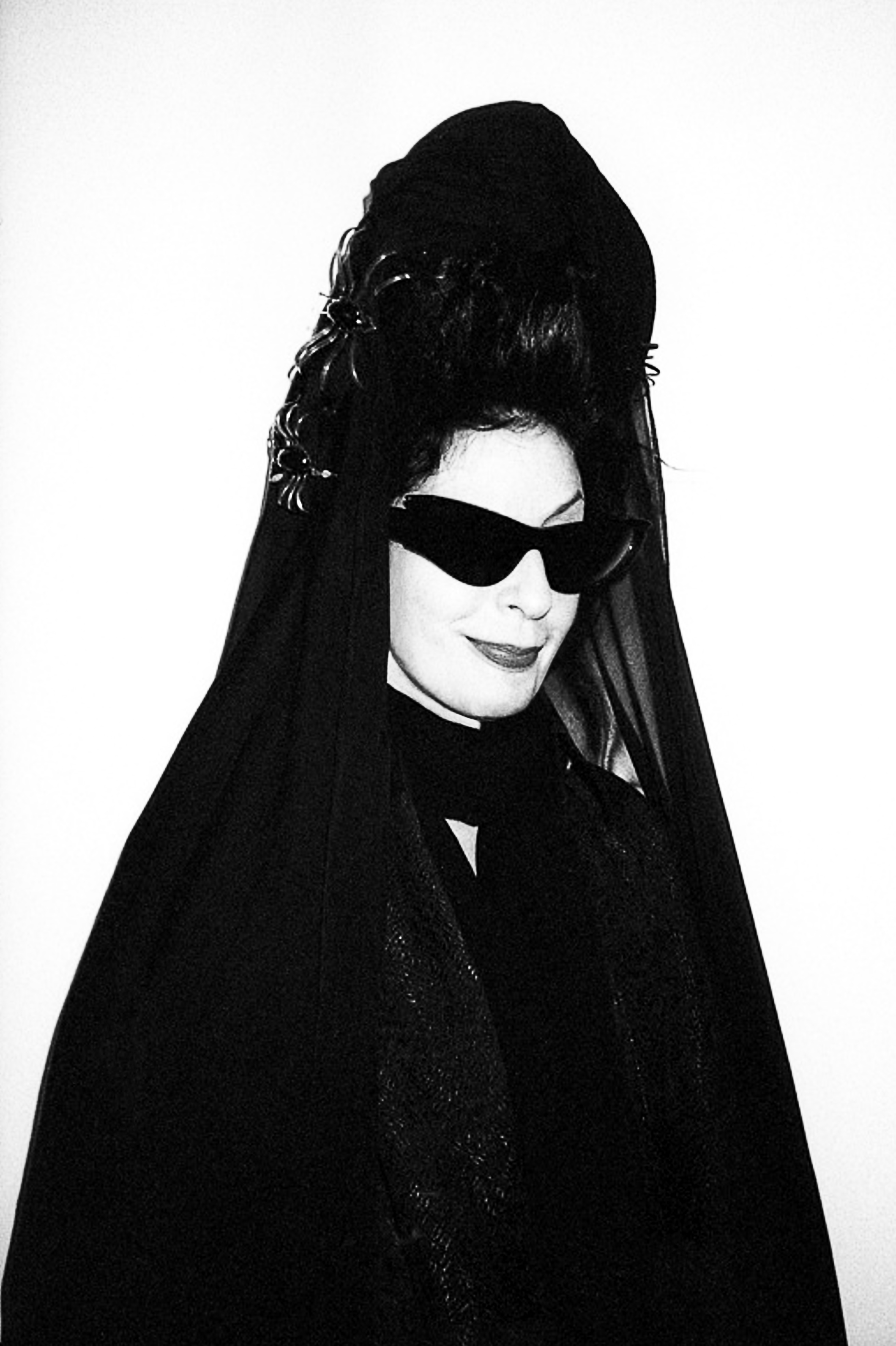 it will be displayed in the official infobox of the official Diane Pernet Wikipedia site